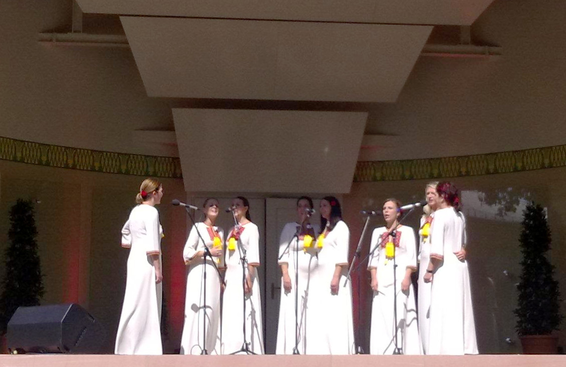 Zenska Klapa Linđo